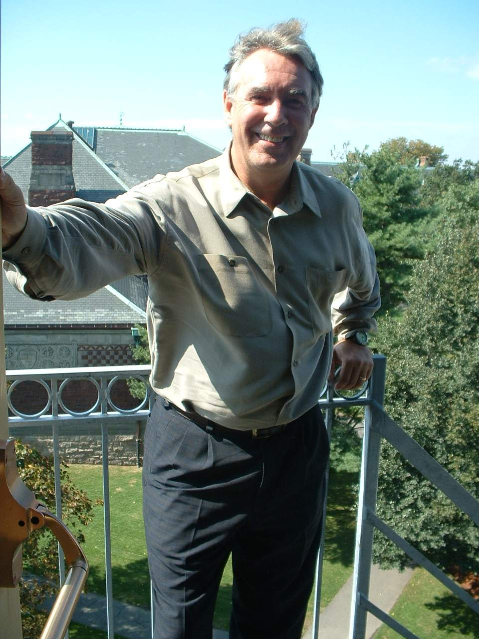 Michael Duff at Harvard University